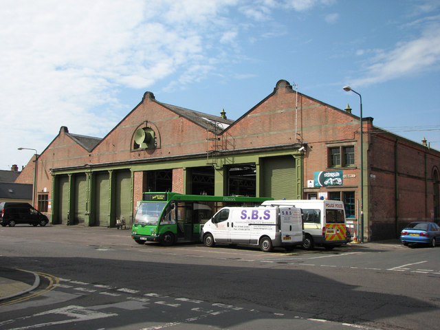 Trent Bridge Bus Depot, Bunbury Street Originally built in 1901 as a works for the Nottingham Corporation tram system, the Bunbury Street building then serviced trolleybuses until 1965. The doorways are tall enough to take double-deckers and the tram and trolleybus overhead wires.